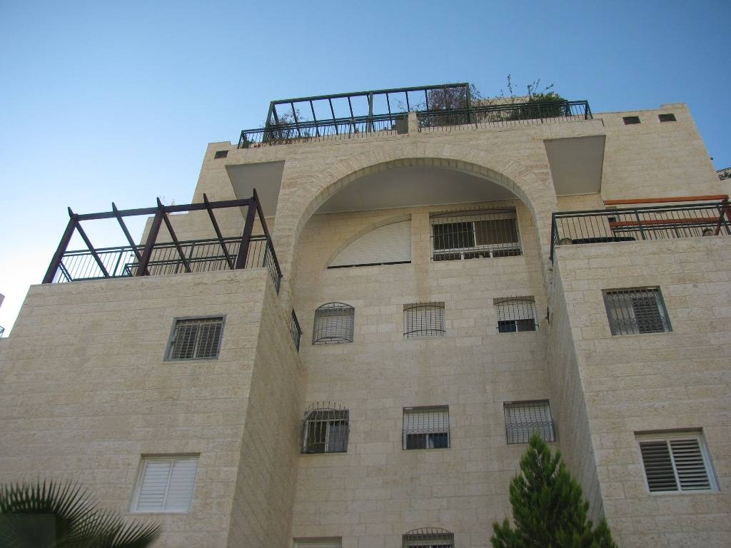 Building Har Homa In Jerusalem